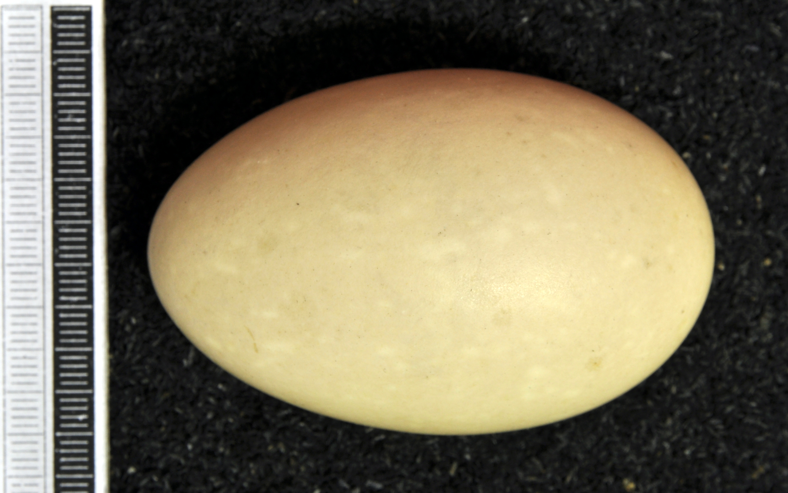 Common scoter Melanitta nigra , egg, Coll. Museum Wiesbaden